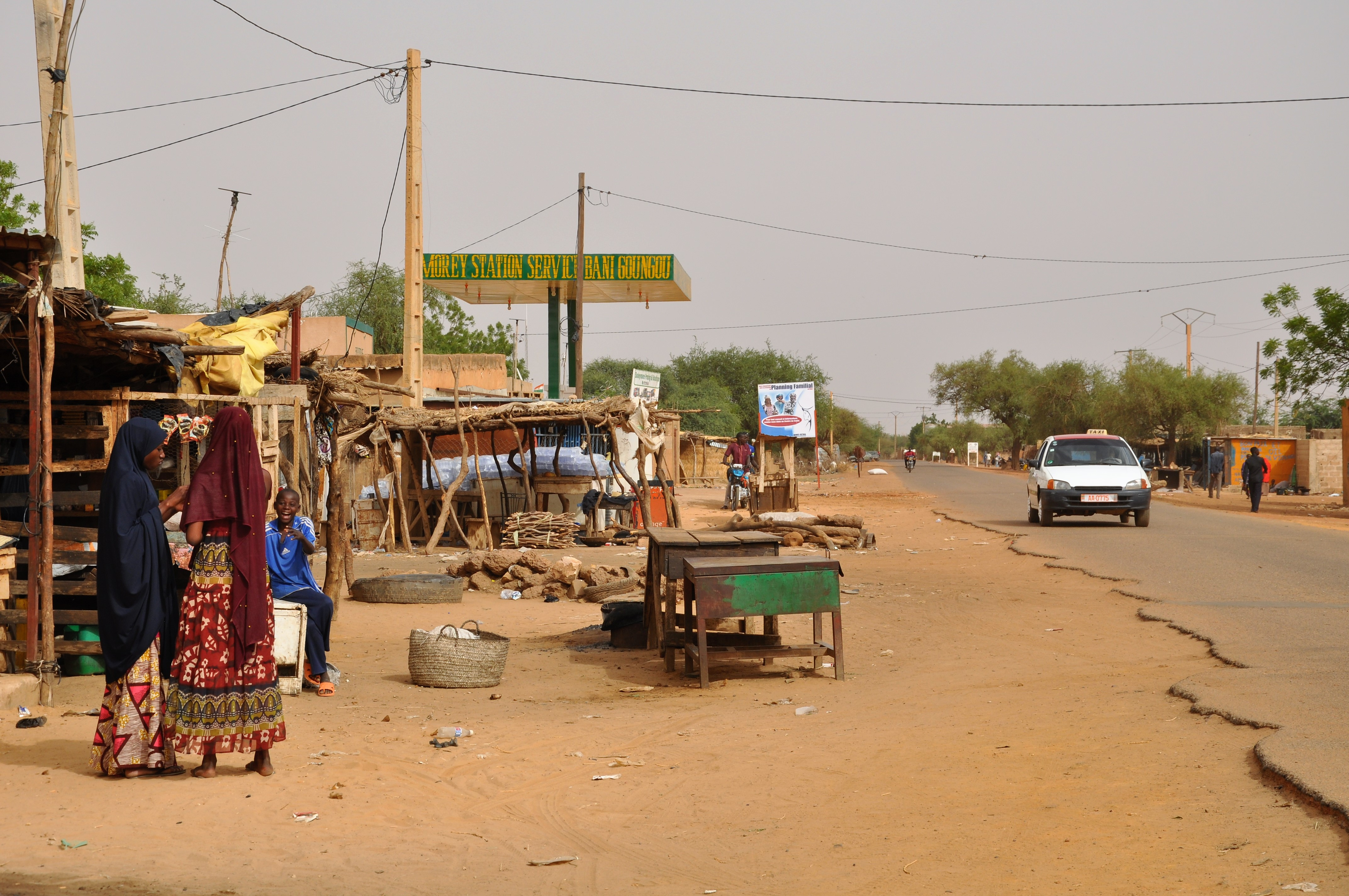 Scene with gas station in Bani Goungou, a village a few kilometers southeast of Niamey, Niger (in the Liboré commune, Kollo department, Tillabéri region).